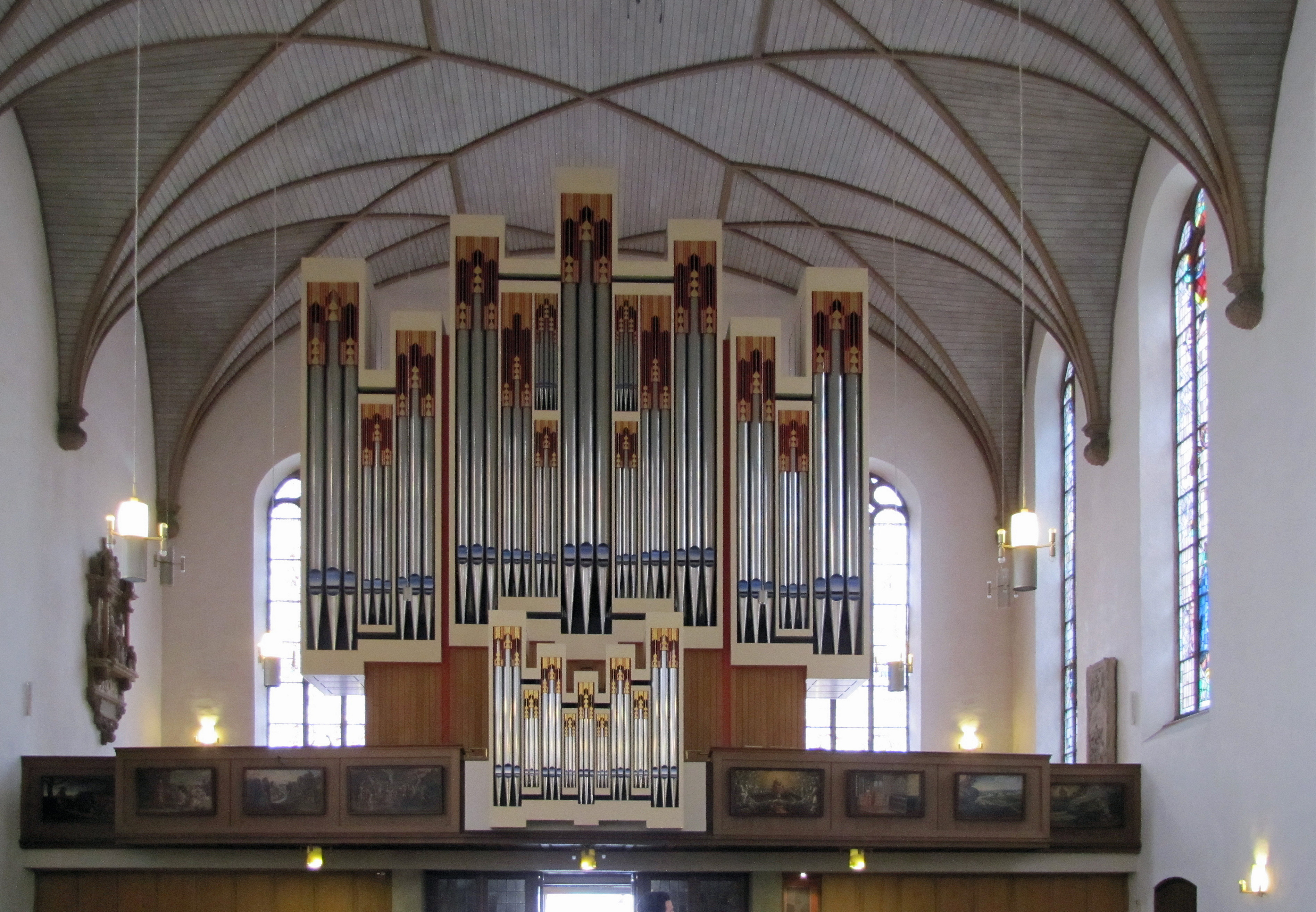 The "Rieger-Organ" of "Katharinenkirche" in Frankfurt am Main at "Hauptwache", Germany.